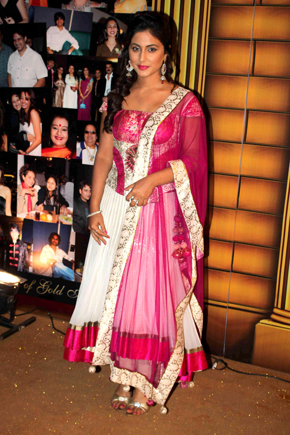 Hina Khan at 5th Boroplus Gold Awards 2012